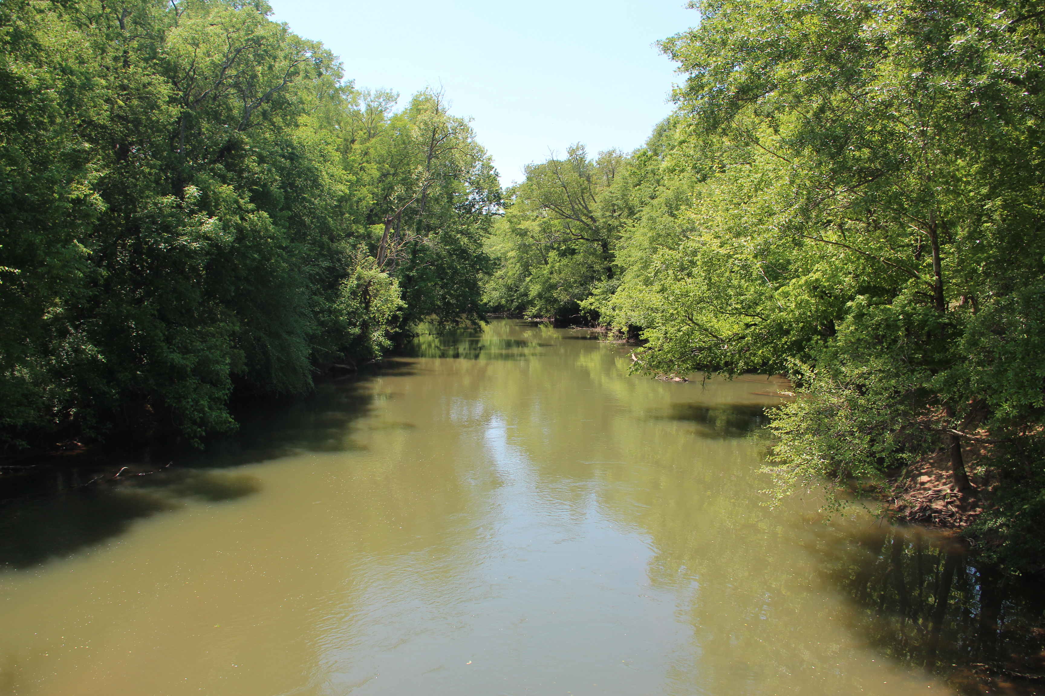 Conasauga River on the border of Whitfield and Murray counties, Georgia